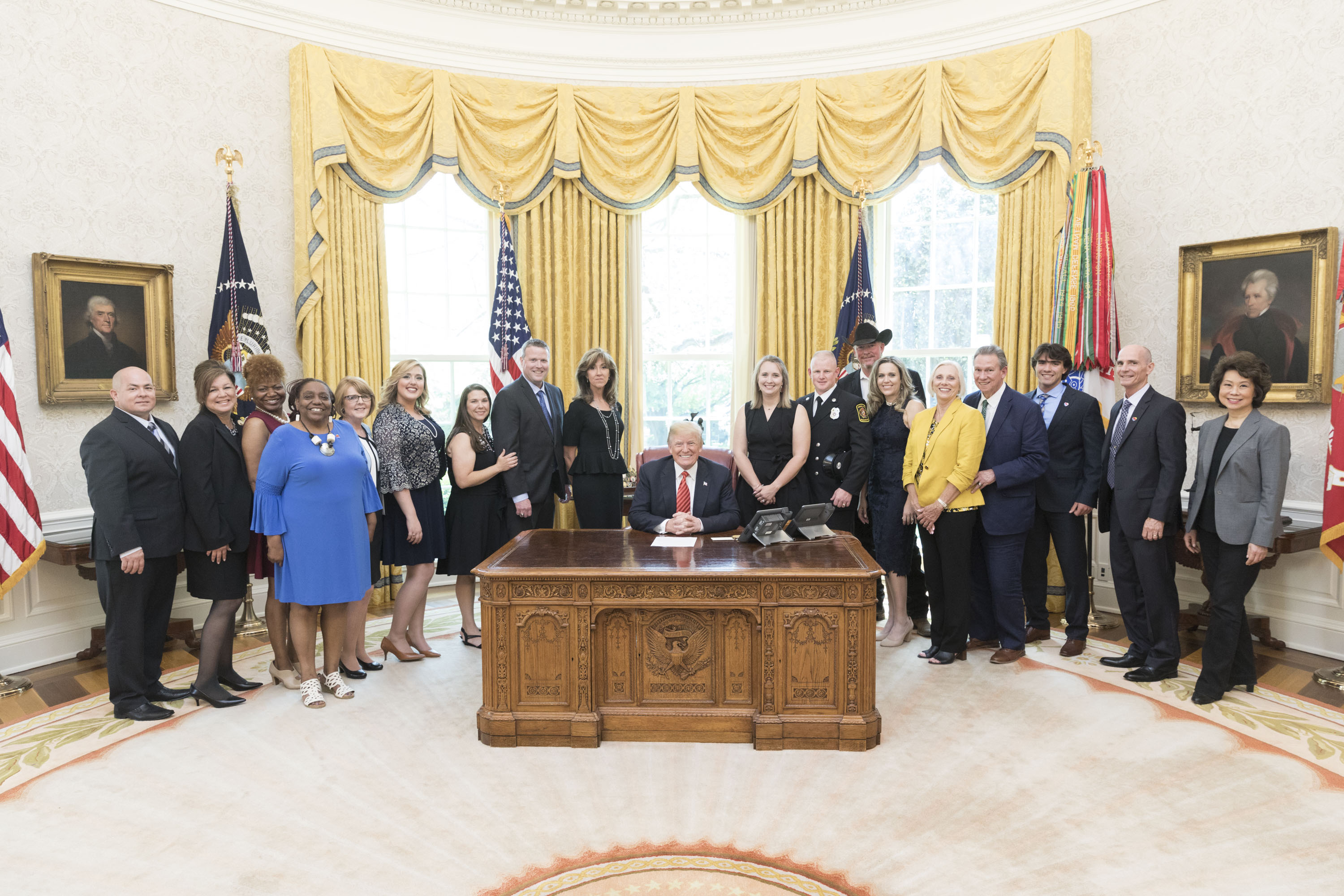 May 1, 2018, President Donald Trump Welcomes the Crew and Passengers of Southwest Airlines Flight 1380 to the White House. Captain Tammie Jo Shults, First Officer Darren Ellisor, Flight Attendant Rachel Fernheimer, Flight Attendant Seanique Mallory, Flight Attendant Kathryn Sandoval; passengers Tim McGinty with his wife Kristin McGinty, Andrew Needum and his wife Stephanie Needum, and Peggy Phillips. From official White House Instagram and Flicker accounts